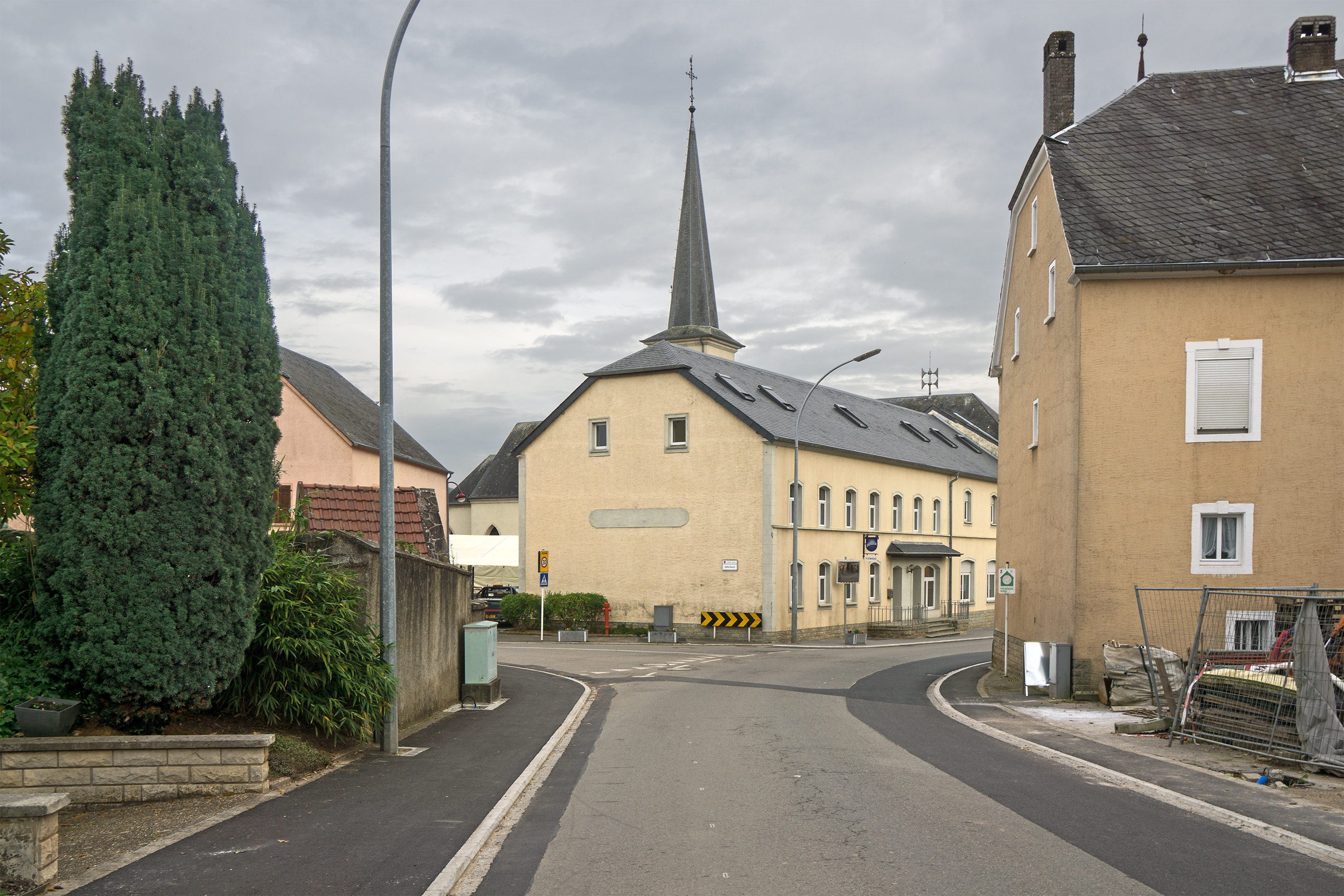 Main road in Bastendorf